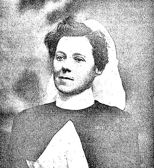 Agnes MacReady 1855 1935 Australia correspondent. guess 1900